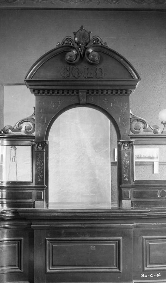 Teller House, Central City, Gilpin County, CO Historic American Buildings Survey Bernal Wells, Photographer, January 25, 1934 DETAIL BANKING SCREEN HABS COLO,24-CENCI,2-2 URL